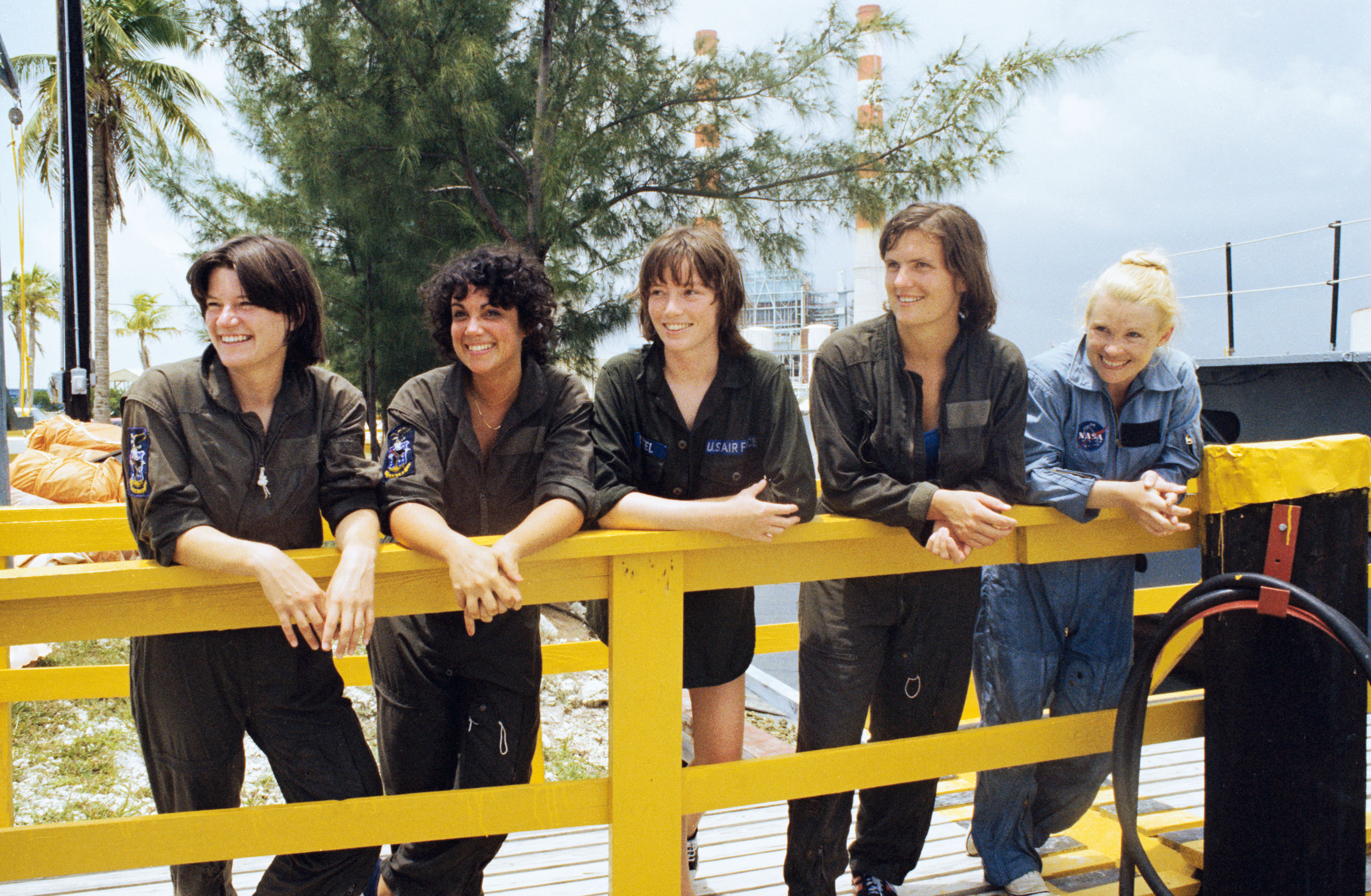 S78-33616 (31 July-2 Aug 1978) --- Taking a break from the various training exercises at a three-day water survival school held near Homestead Air Force Base, Florida are these five astronaut candidates left to right are Sally K. Ride, Judith A. Resnik, Anne L. Fisher, Kathryn D. Sullivan and Rhea Seddon. They were among fifteen mission specialist-astronaut candidates who joined one of the pilot astronaut candidates for the training.